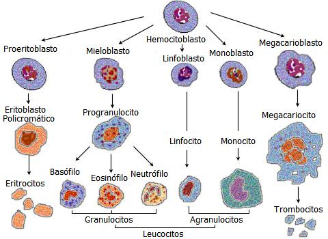 Blood Cell Lineage - translated spanish 470x350